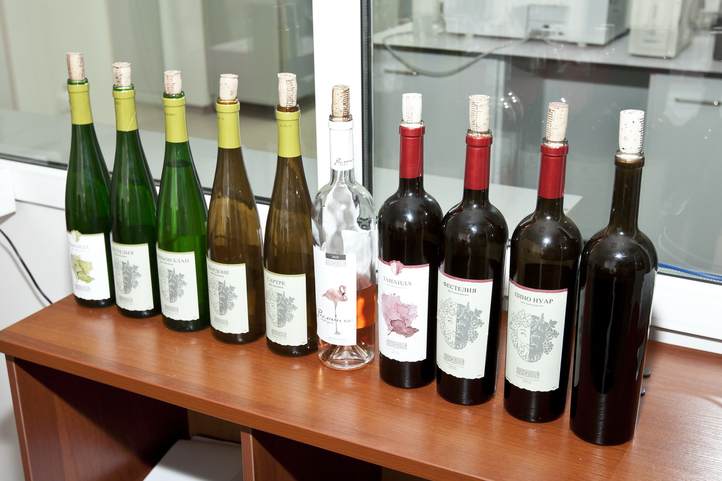 "Lefkadia" wine bottles